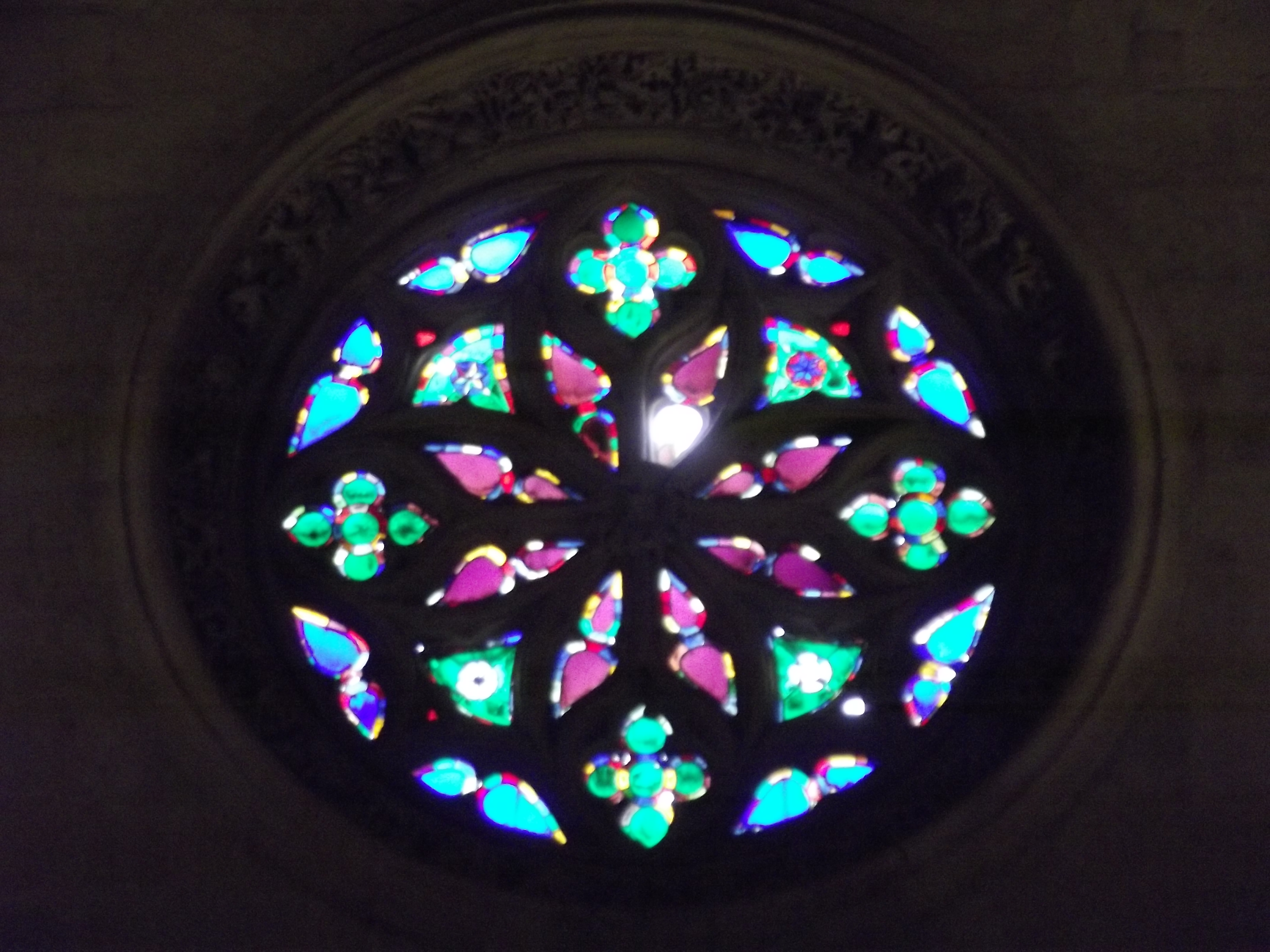 At The Mosque Cathedral of Cordoba. Cathedral–Mosque of Córdoba The Mezquita or Mezquita-Catedral of Cordoba is a Roman Catholic cathedral and former mosque situated in the Andalusian city of Córdoba, Spain. Originally built as a church, after the Muslim conquest the building was confiscated for use as a mosque and greatly expanded until it became the second-largest mosque in the world. It is regarded as perhaps the most accomplished monument of the Umayyad dynasty of Cordoba. After the Spanish Reconquista, it was returned to its original use as a church. Today it houses the main church of the diocese of Cordoba in Spain. stained glass window